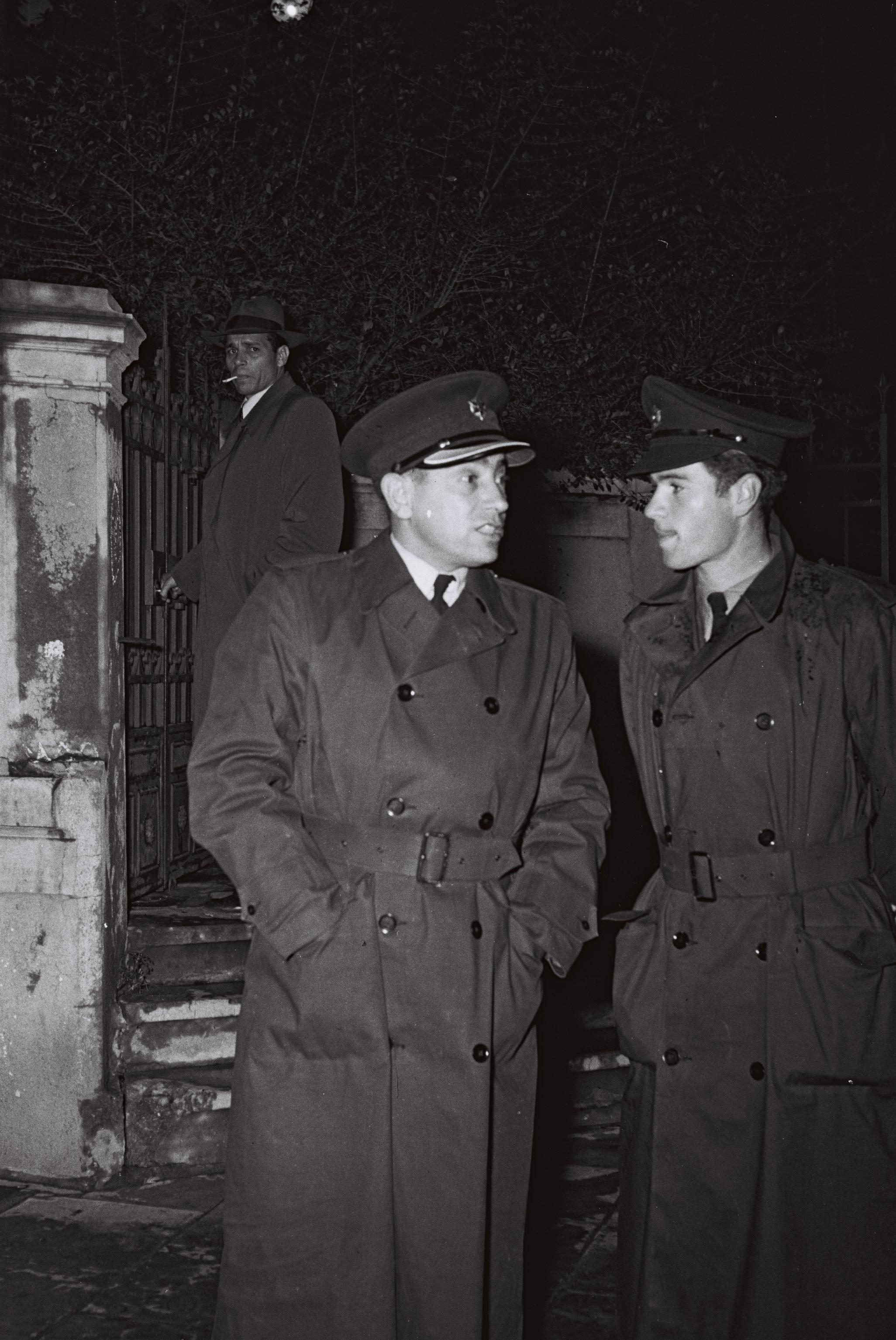 Senior police officer and assistant standing at scene of explosion at entrance to courtyard of Russian embassy, Tel Aviv.